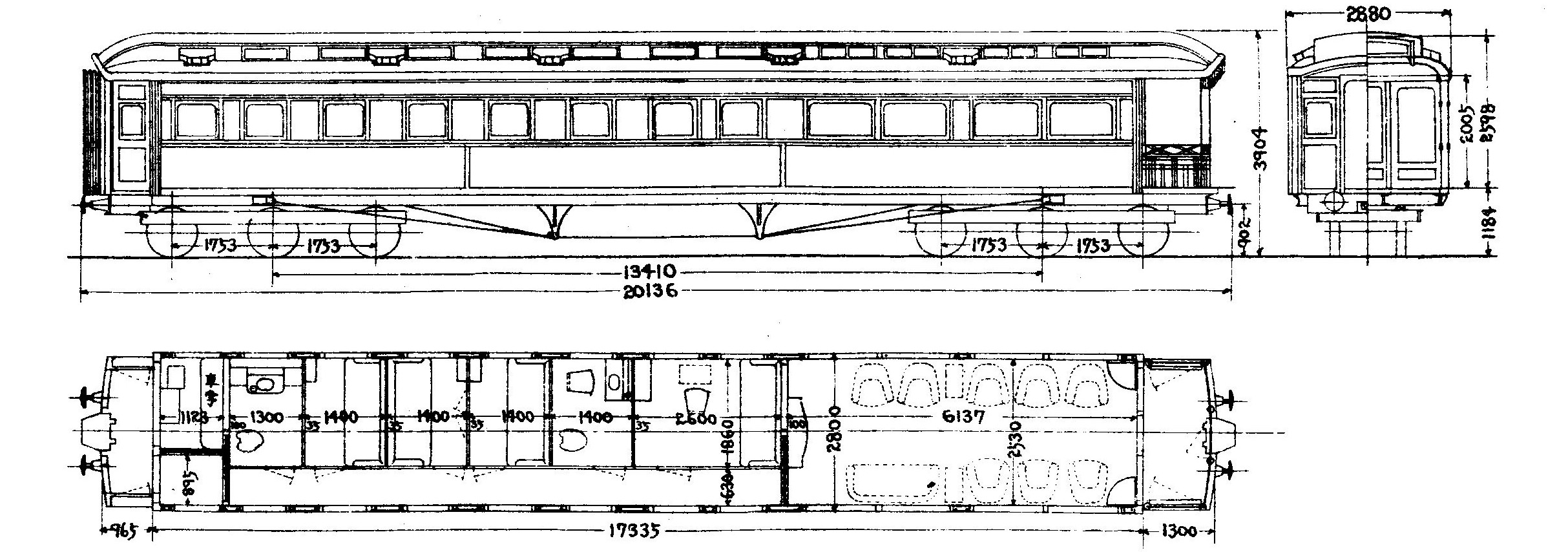 Type drawing of JGR's Imperial Car (Goryosha) No.10